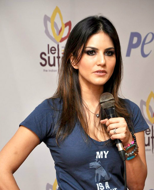 Sunny Leone launches PETA - Adopt a stray dog campaign